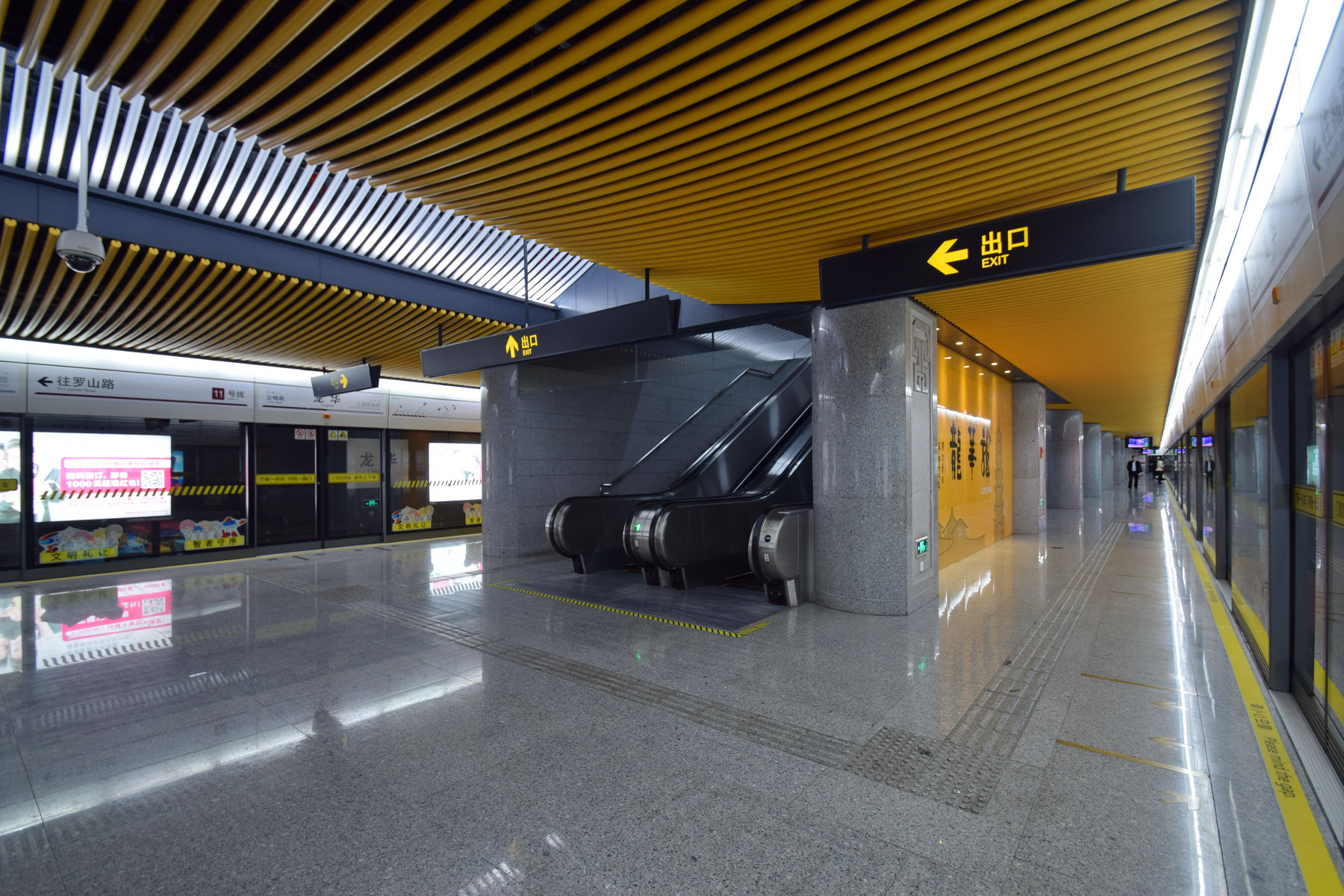 Line 11 Platform of Longhua Station, Shanghai Metro